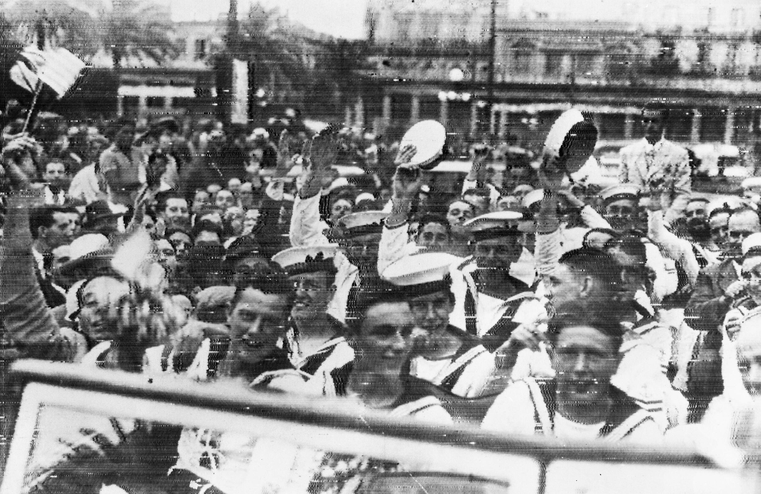 Rear Admiral Sir Henry Harwood Received in Montevideo. 3 January 1940, Montevideo, Uruguay. Admiral Harwood Arrived in the Cruiser HMS Ajax After the Battle of the River Plate and the Scuttling of the German Battleship Admirale Graf Spee. (radio Photograph?) In the background, the buildings on Independence Square. Sailors from HMS AJAX (?) ride through the streets of Montevideo.